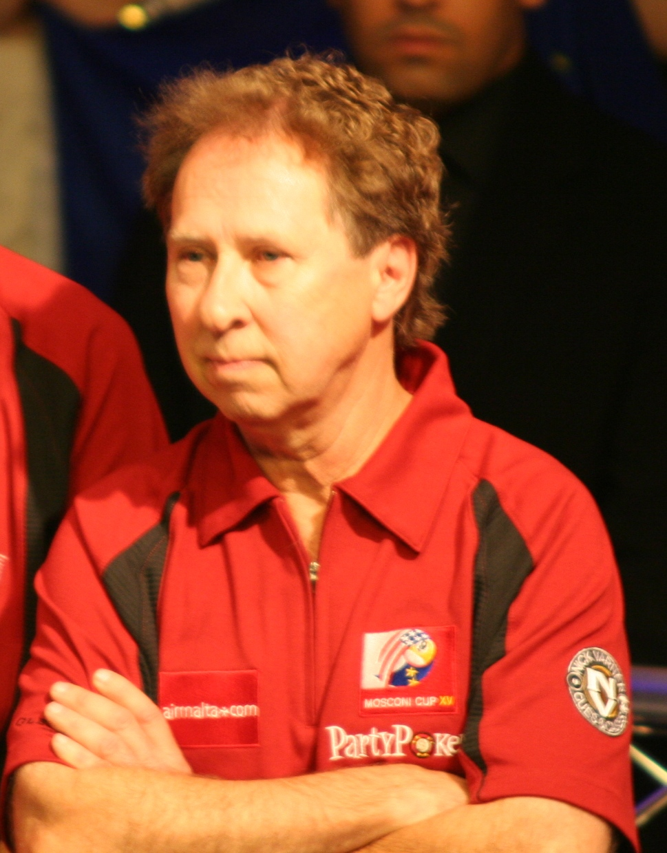 former US-american pool player and America's captain Nick Varner at the Mosconi Cup 2008 in Malta.